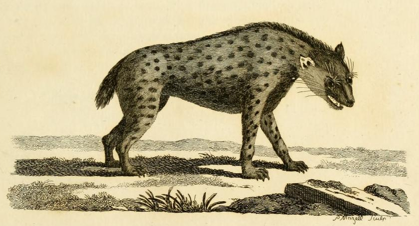 Engraving of a spotted hyena. It is notable as being the first authentic representation of the species